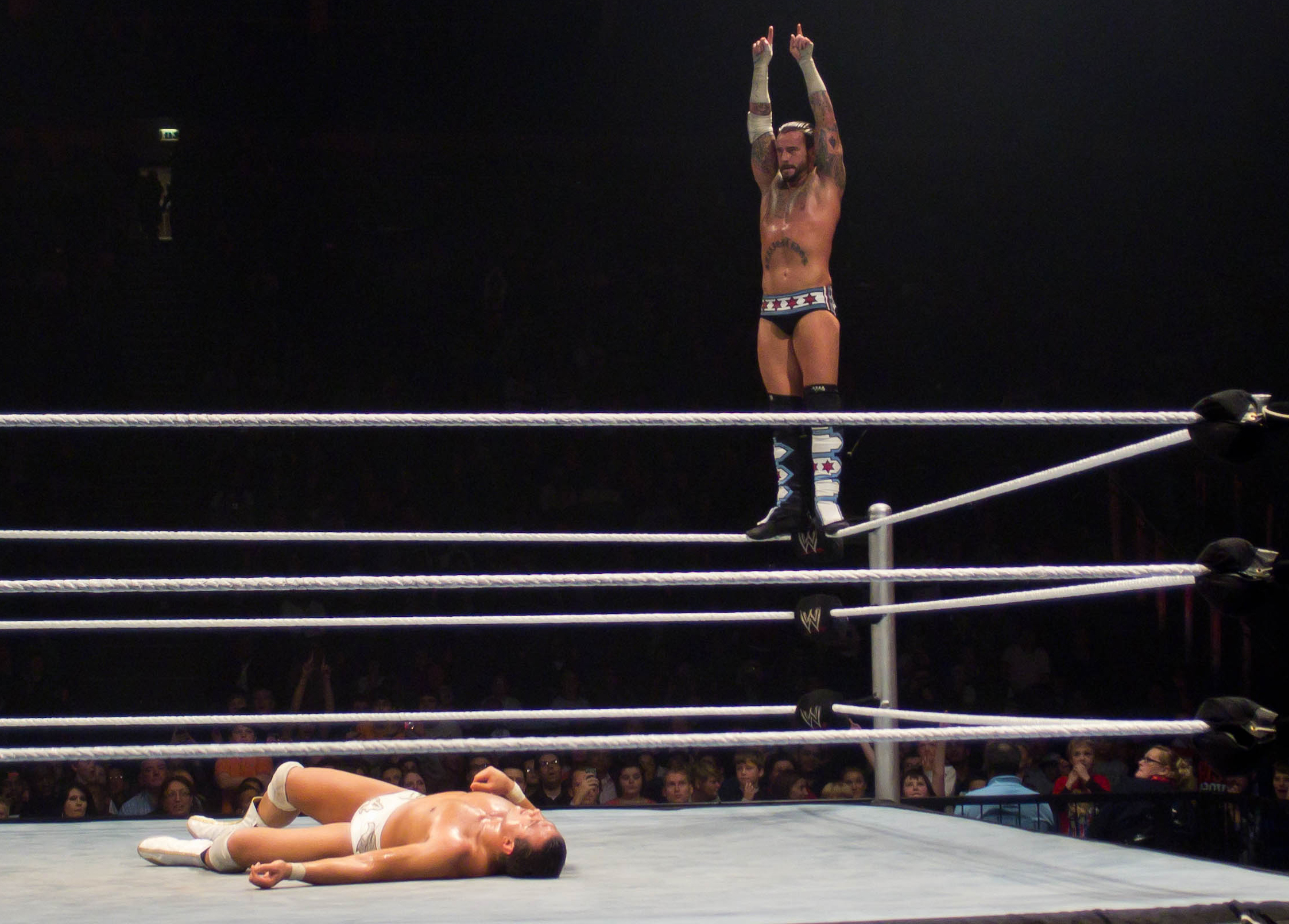 CM Punk perfoming Randy Savage's signature taunt before dropping a top-rope elbow on Alberto Del Rio. Taken November 11 during the RAW World Tour in London, England.